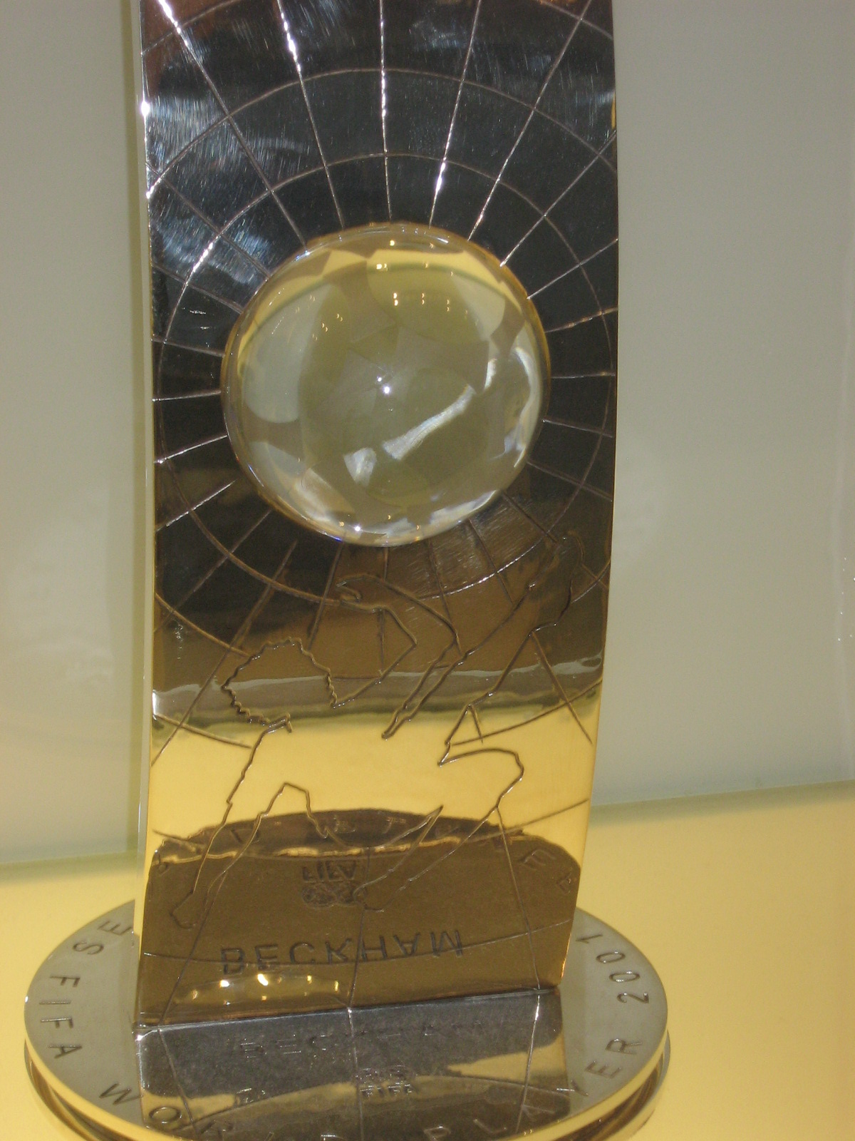 David Beckham second place's award of en:2001 FIFA World Player of the Year